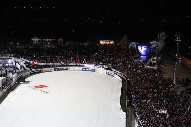 Vikersundbakken during FIS Ski-Flying World Championships 2012 in Vikersund